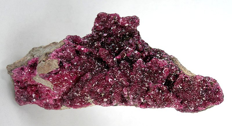 Spherocobaltite Locality: Kolwezi, Western area, Katanga Copper Crescent, Katanga (Shaba), Democratic Republic of Congo (Zaïre) (Locality at ) Size: 11.5 x 6.0 x 4.5 cm. This is the largest specimen I have ever seen of this rare material often mistaken for the more common species cobaltoan calcite, and it is studded with bright, lustrous, translucent, magenta-colored crystals to .5 cm. I must say that the color is the deepest I have seen for this species, as well. It is vibrant. And, for such a rarity, a real treasure.